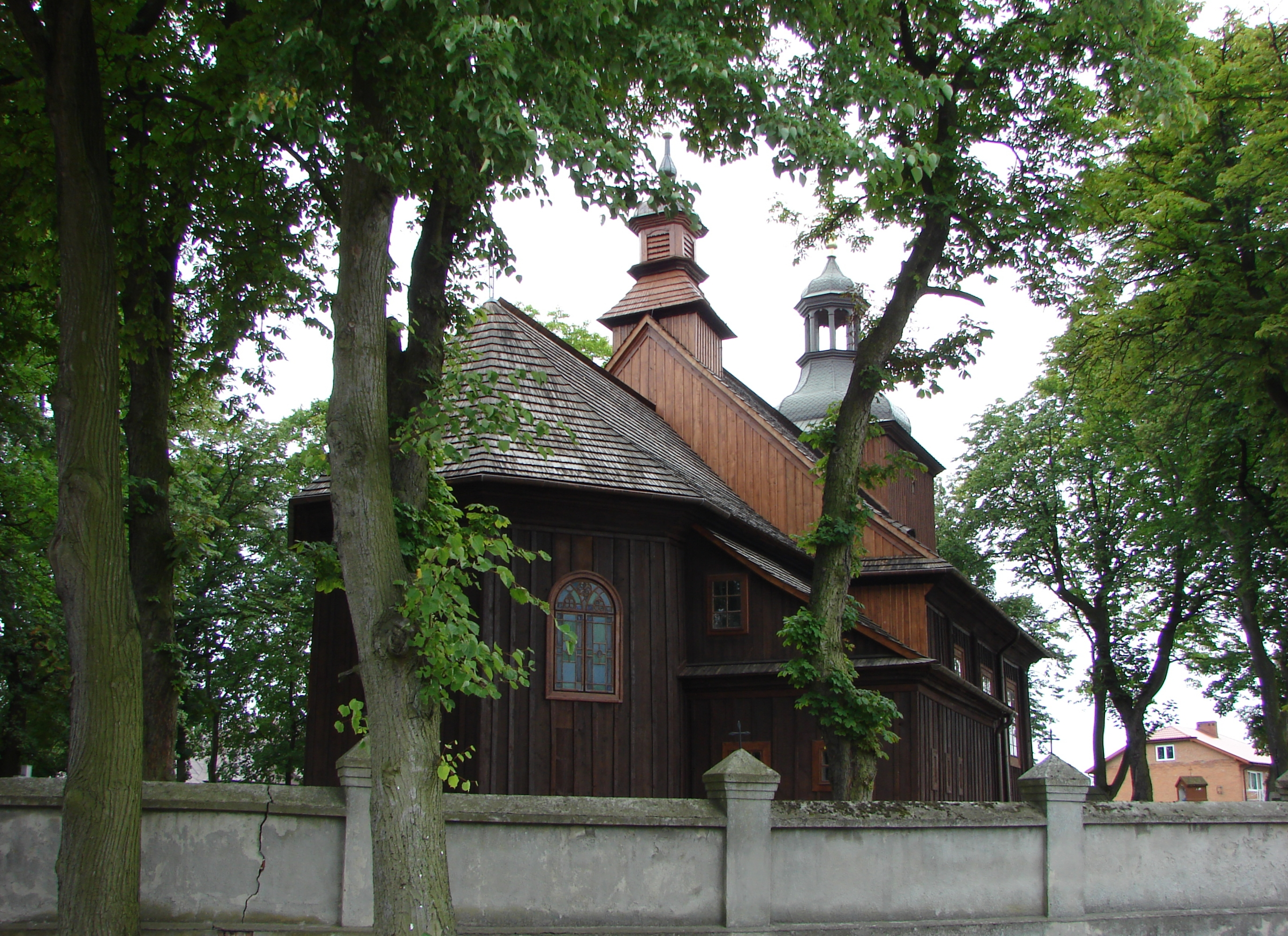 Łęki Kościelne, Gmina Krzyżanów. Parish wooden church, built 1775.